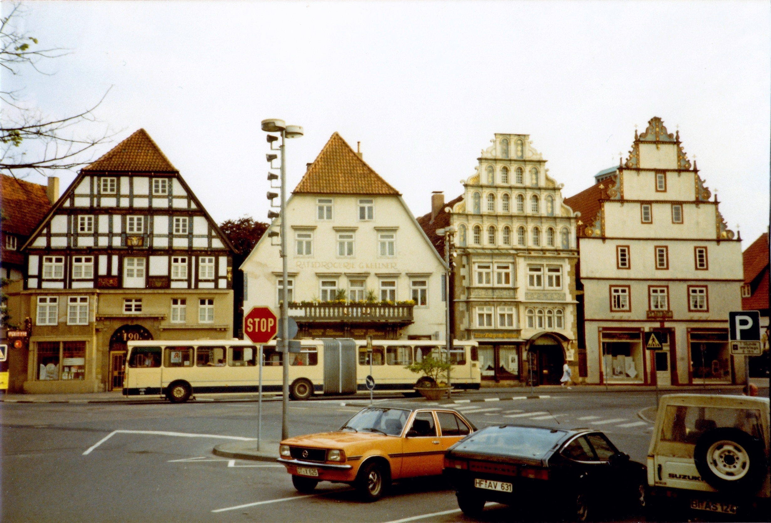 Bad Salzuflen Am Markt / Salzhof in July 1985